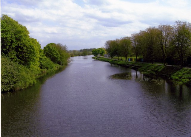 Bann River at Portadown Taken from new road bridge.